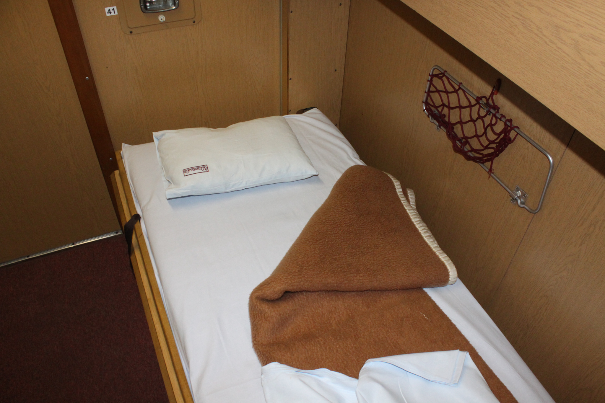 Interior of MÁV WLAB 51 55 70-80 007-5 in the consist of EuroNight 441 "Venezia" from Venezia S. Lucia to Budapest-Keleti.